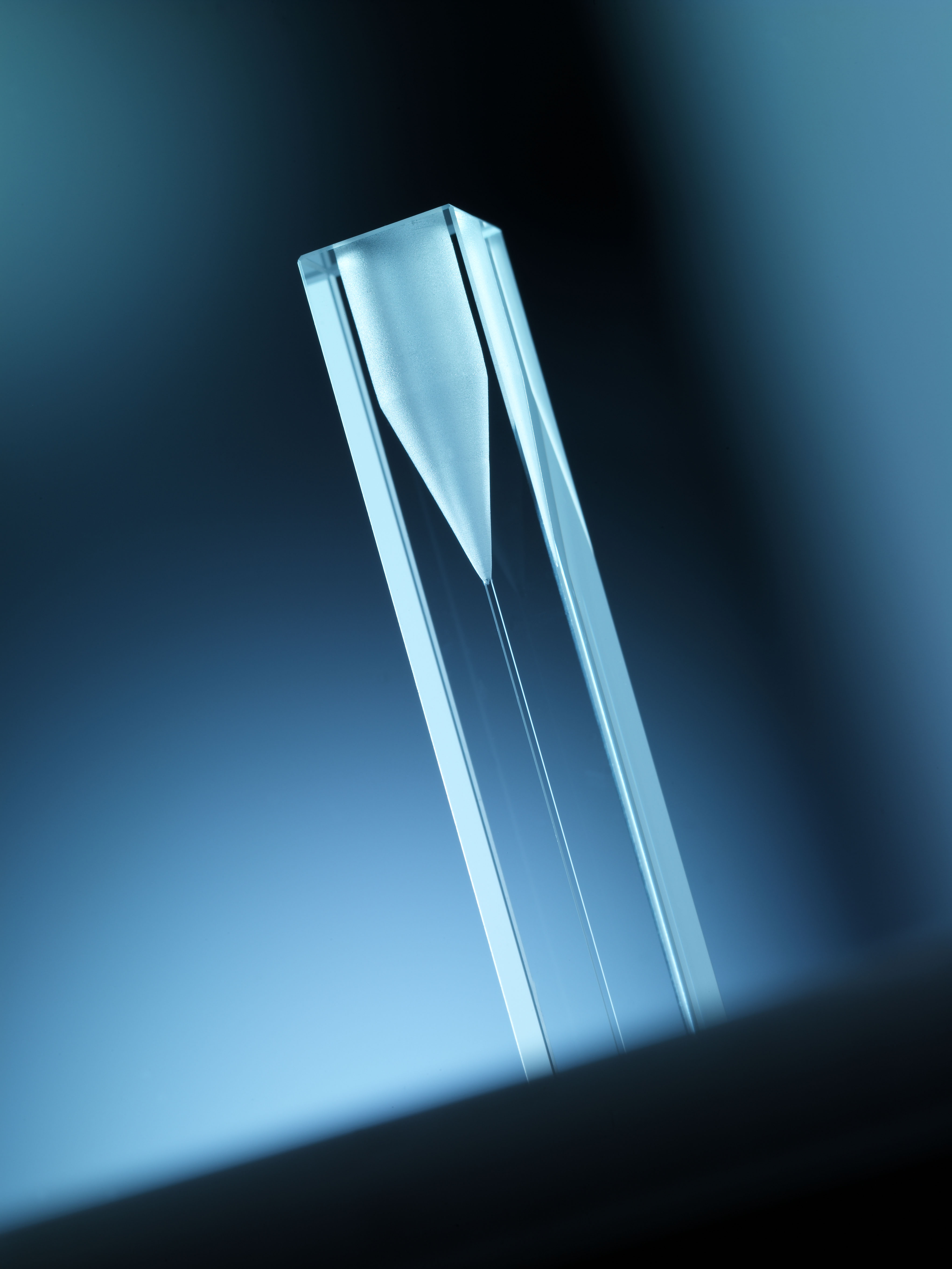 Micro Flow Channel